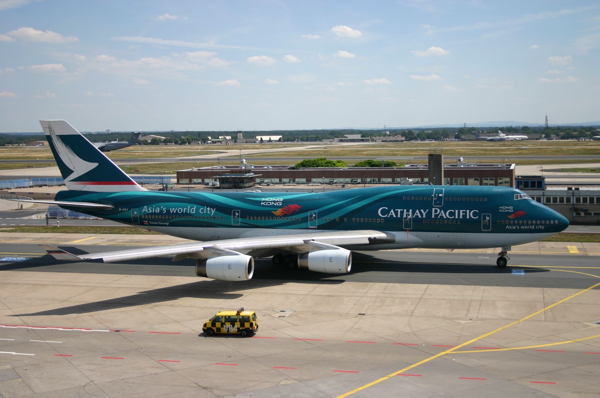 At Frankfurt Main